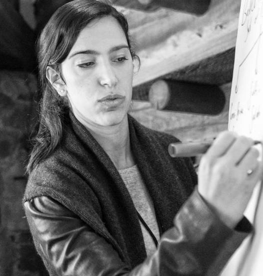 Image of Lara Setrakian